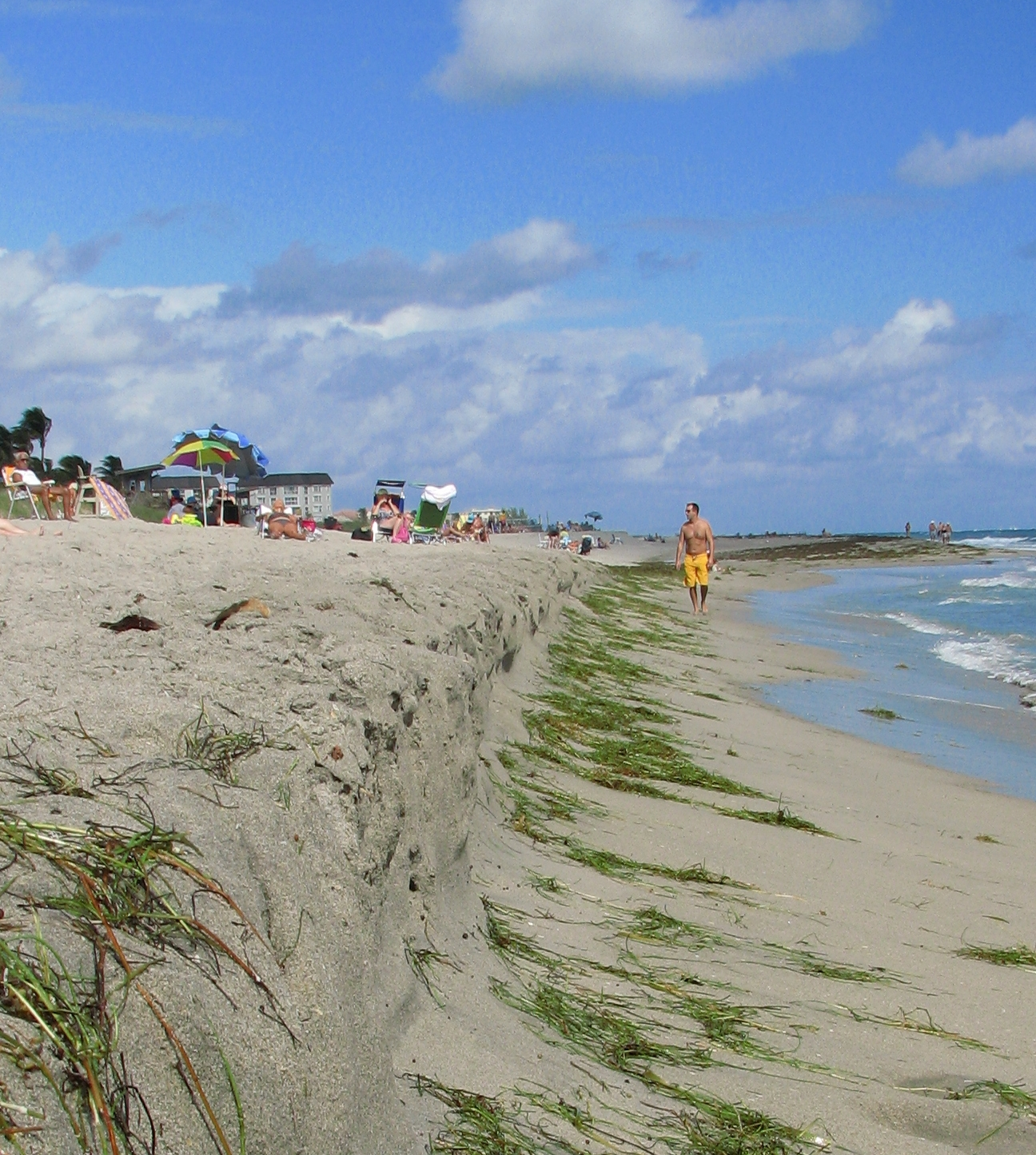 Beach Erosion caused by Hurricane Noel at Boynton Beach FL, City Beach.